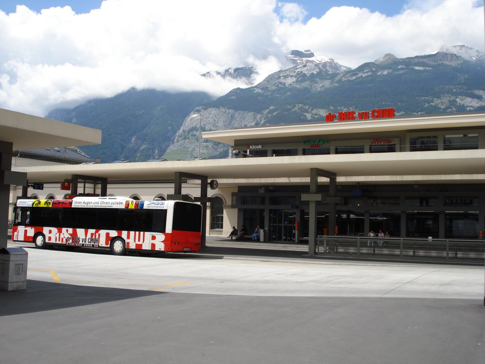 The bus terminal in Chur, Switzerland.